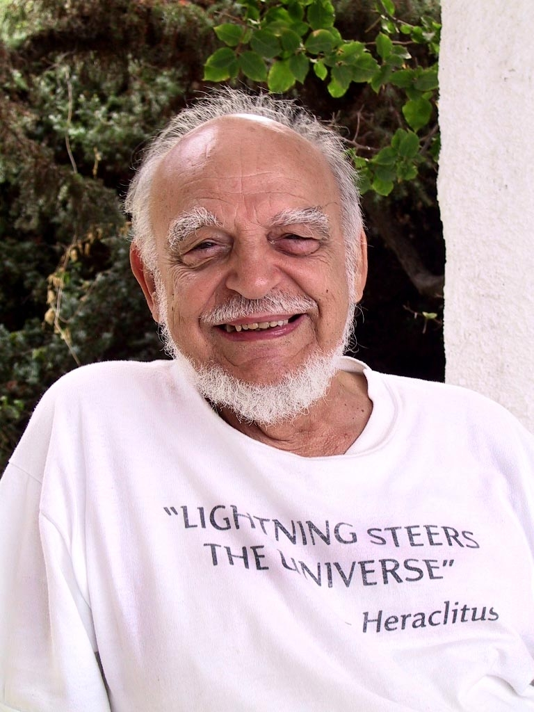 self-picture - public domain--Amideg|User:Amideg|Amideg 08:35, 30 July 2006 (UTC)